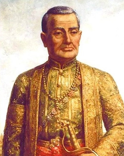 Crop of portrait of King Buddha Yodfa Chulaloke which is displayed in the Chakri Mahaprasad Hall at the Grand Palace, Bangkok. Portrait created during the reign of King Chulalongkorn, meaning it was created no later than 1910 (identity of the creator is unknown to the uploader). Image taken from web page of the Public Relations Department, Region 3